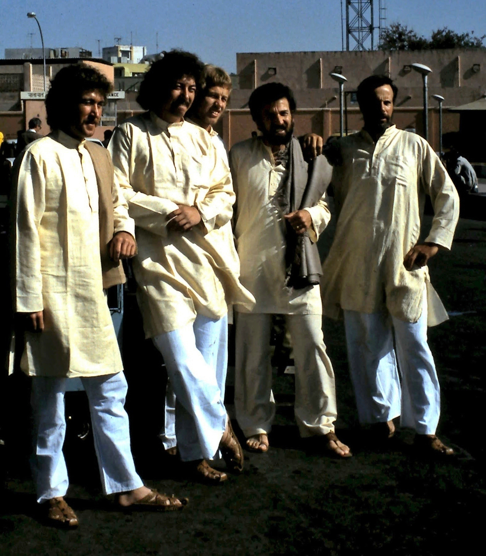 Photo of Dhoti clothing, taken in India by Wolfgang Holzem /